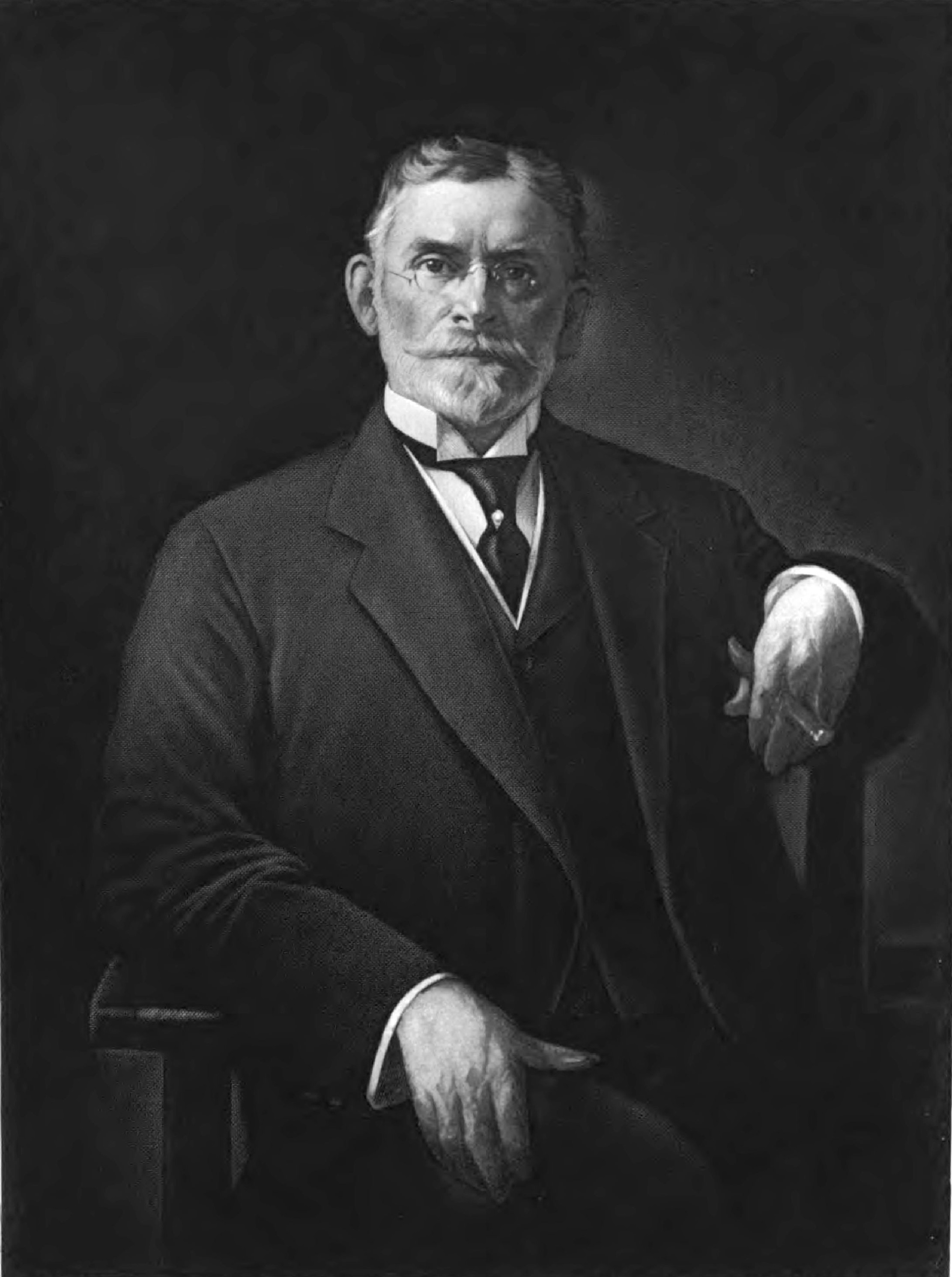 Engraving of Homer Laughlin by E.G. Williams Bro., New York